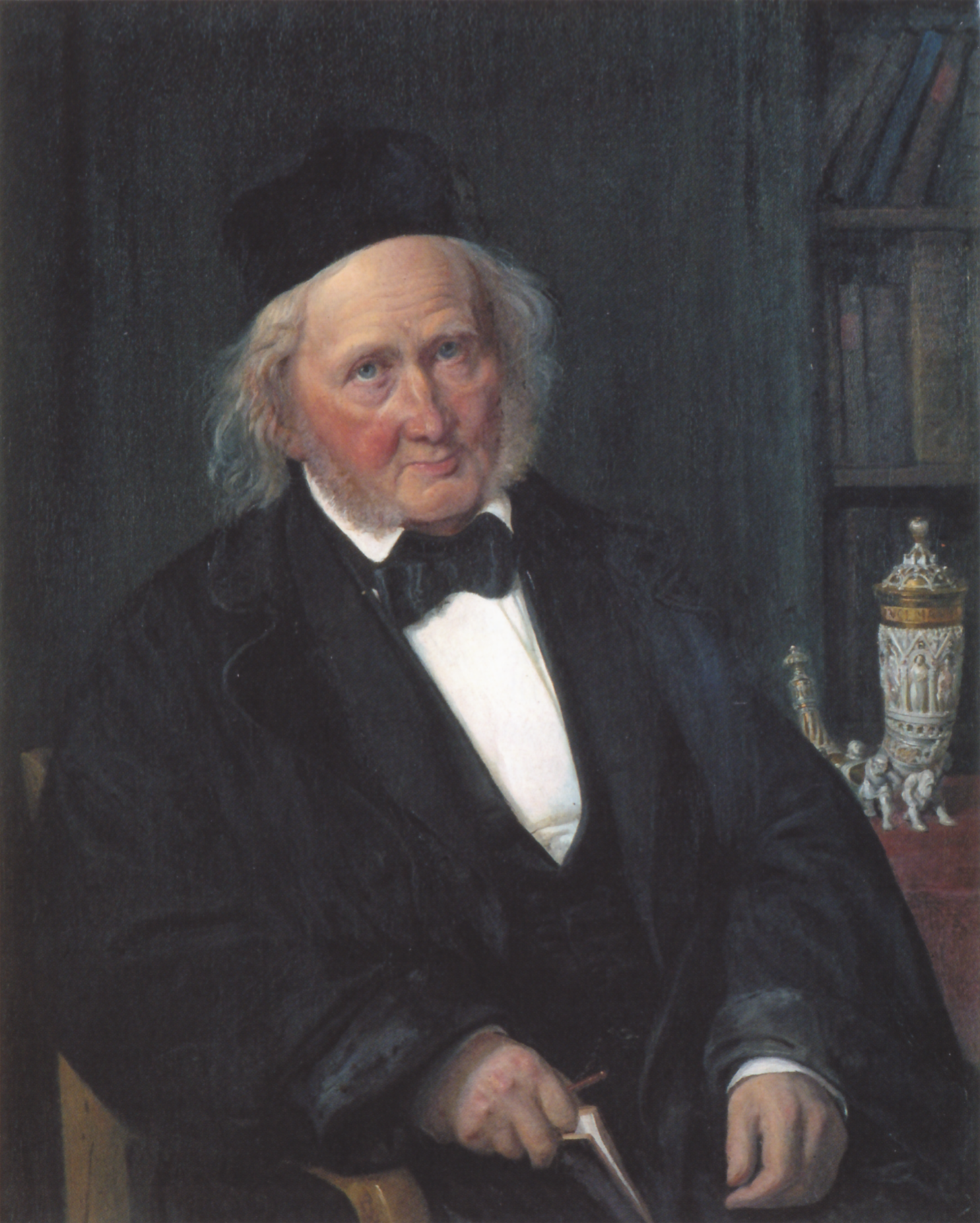 Friends of the old writer and poet B.S. Ingemann saw to it that Wilhelm Marstrand did his portrait in 1860.